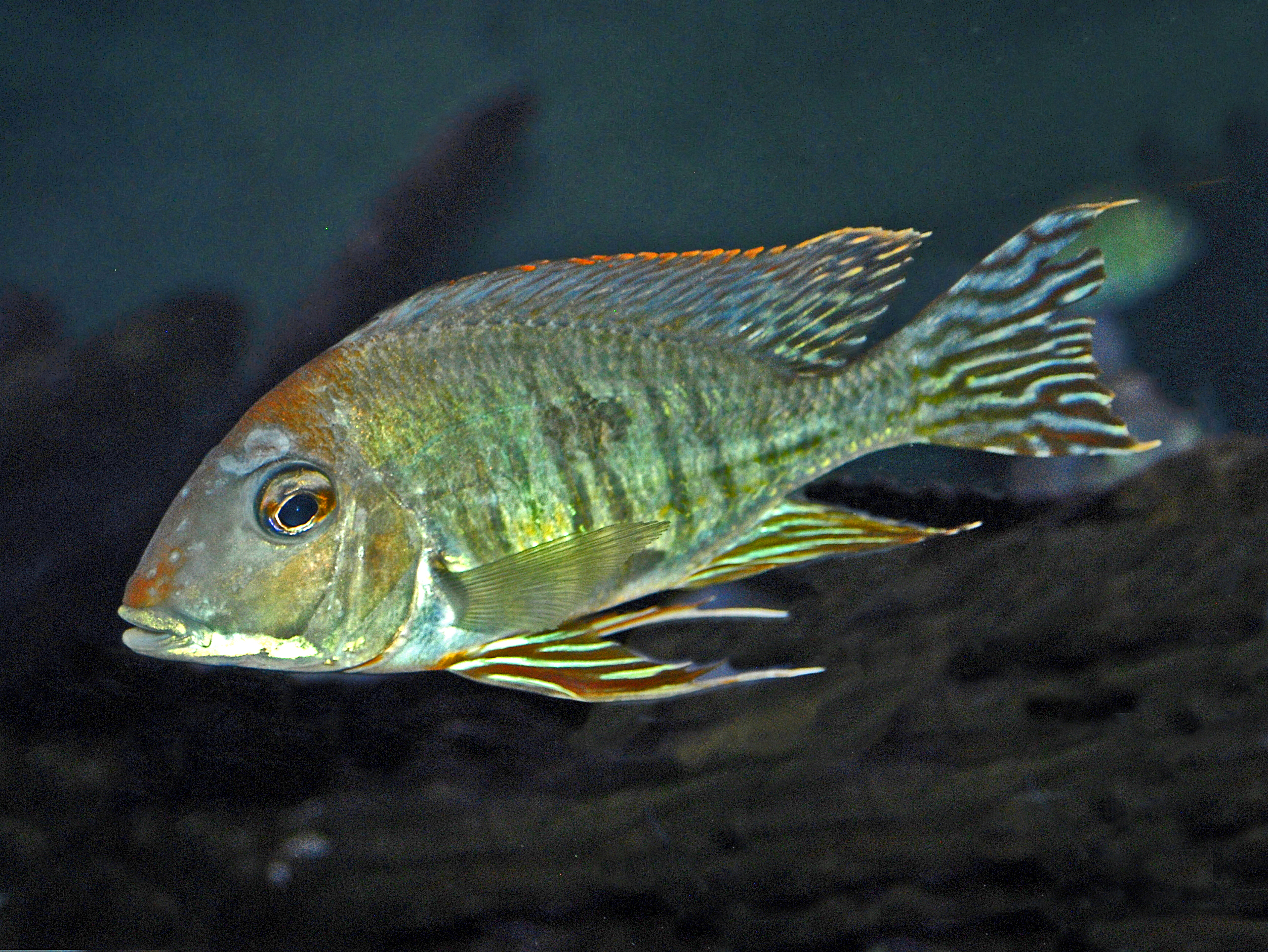 Male of Geophagus altifrons, on display at the Museo di Storia Naturale e del Territorio, Calci (Province Pisa), Italy